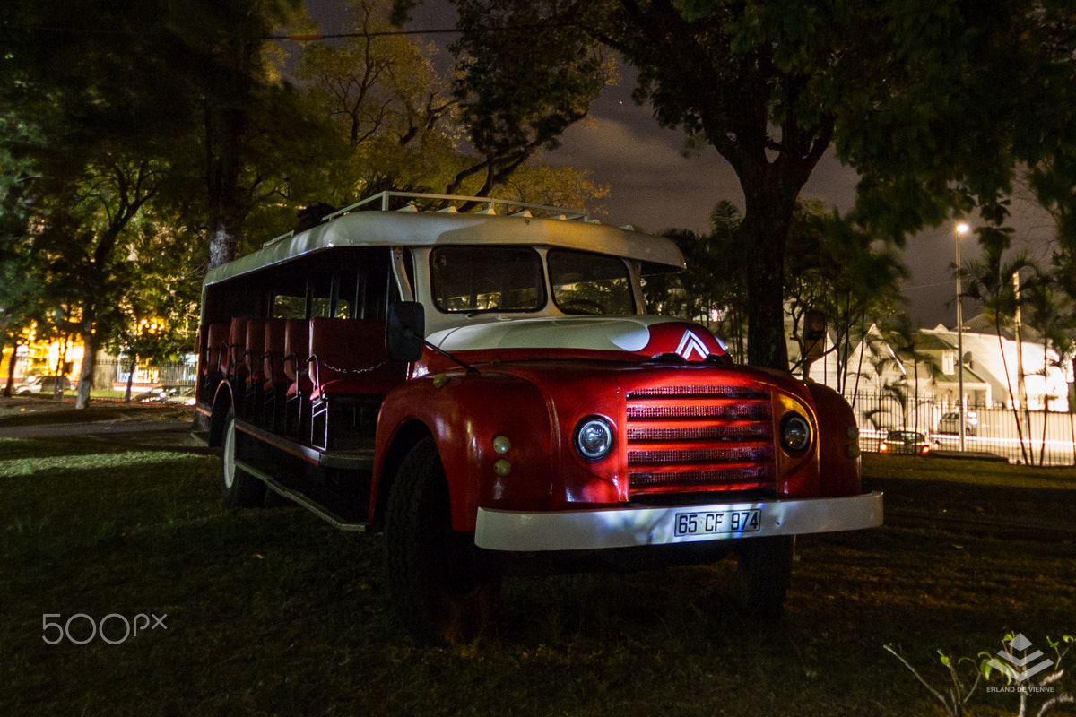 500px provided description: Our ??air stream bus?? in Reunion island, from 1929 in the late 1970s Notre car ??courant d?air?? de 1929 ? la fin des ann?es 70 [#landscape ,#travel ,#bus ,#airstream ,#1929 ,#1970 ,#reunion island ,#Sigma ,#indian_ocean ,#gotoreunion ,#Canon_photo]